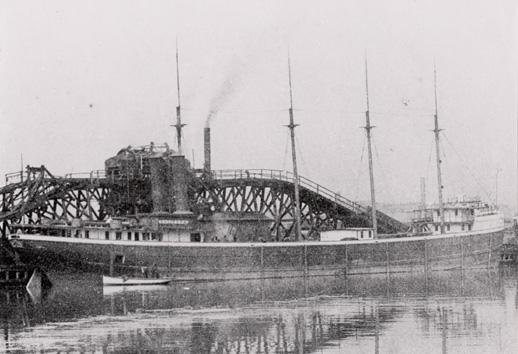 Wooden ore boat at an unknown port